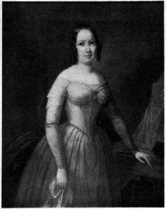 Maria Adolfina Fägerstedt, Swedish ballet dancer